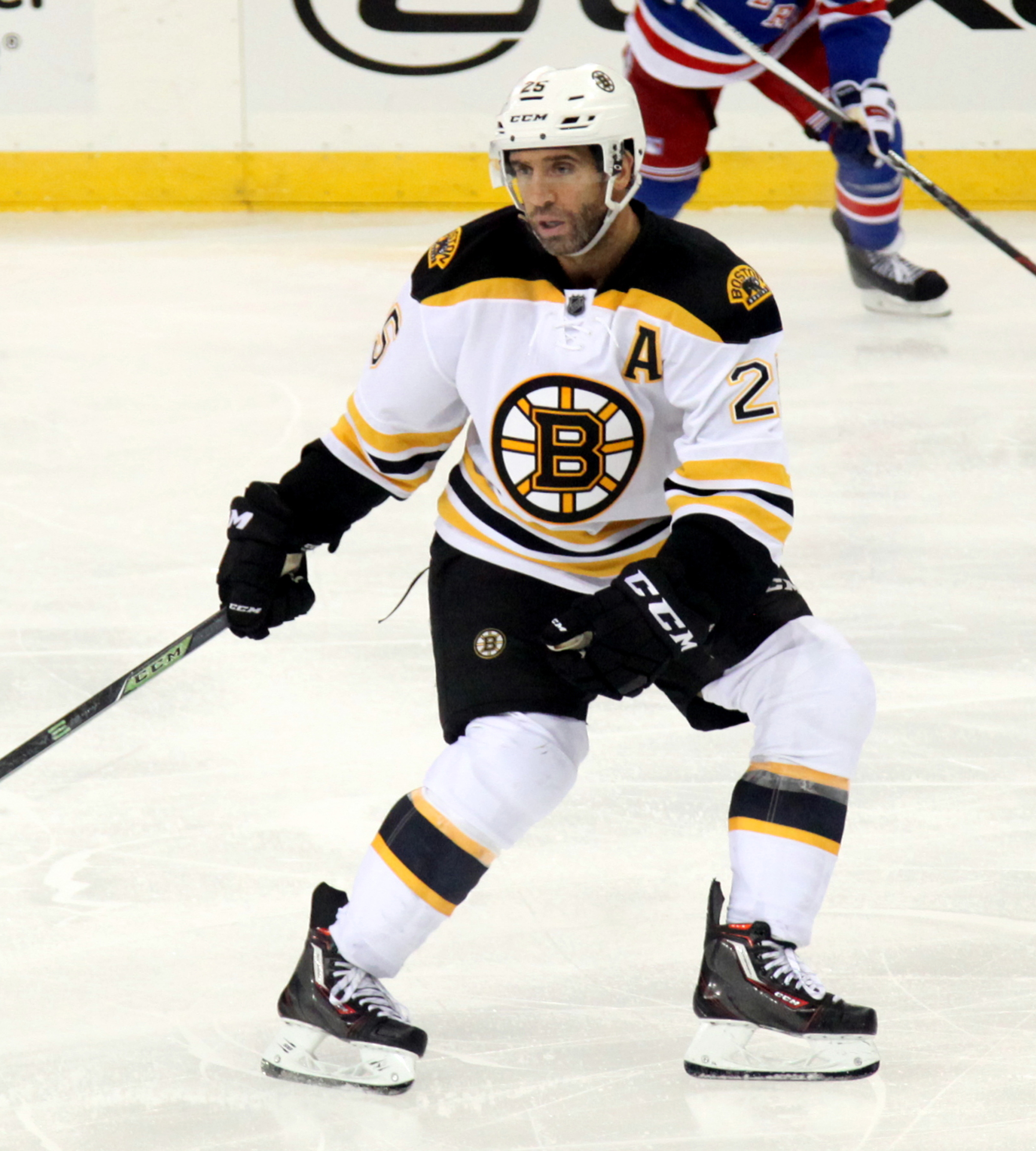 Talbot in September 2015.